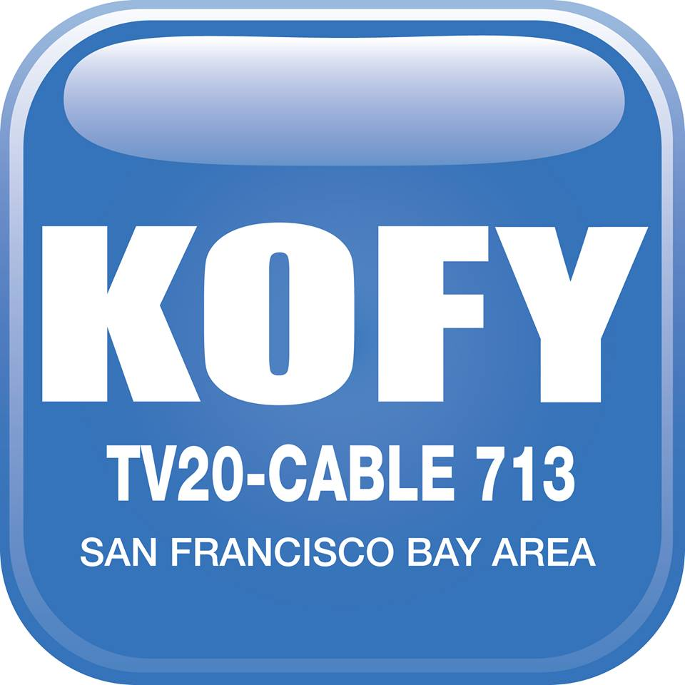 The logo of KOFY-TV